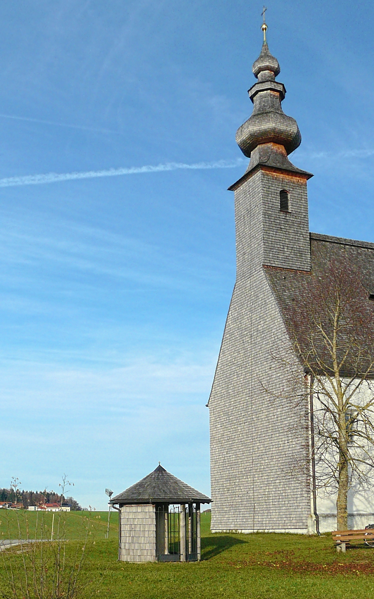 Curch St. Margareta in Egerdach, municipal Wonneberg, district Traunstein, Upper Bavaria, Germany in front: pavilion with Roman Milliarum